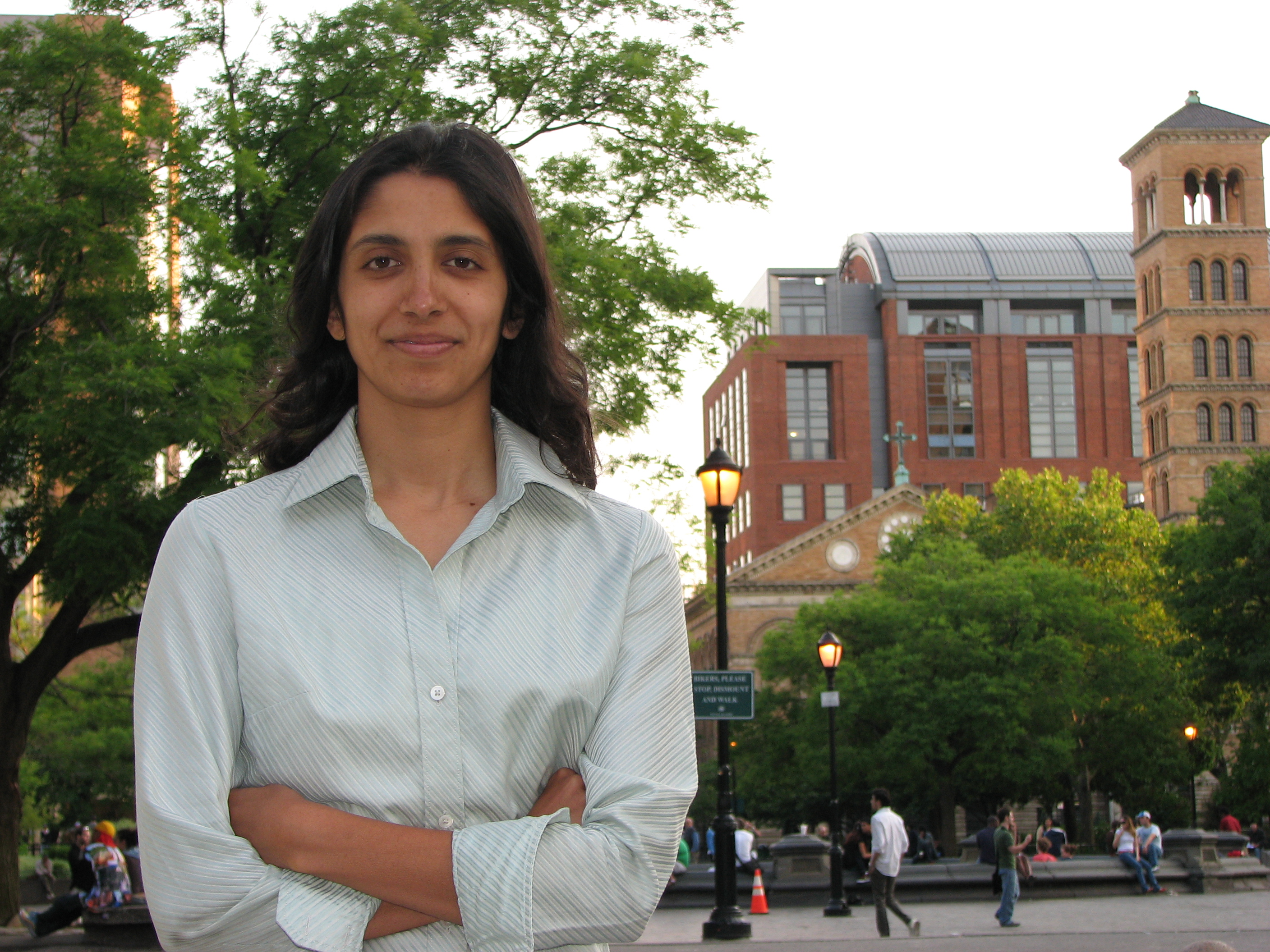 Jhumki Basu at Washington Square Park